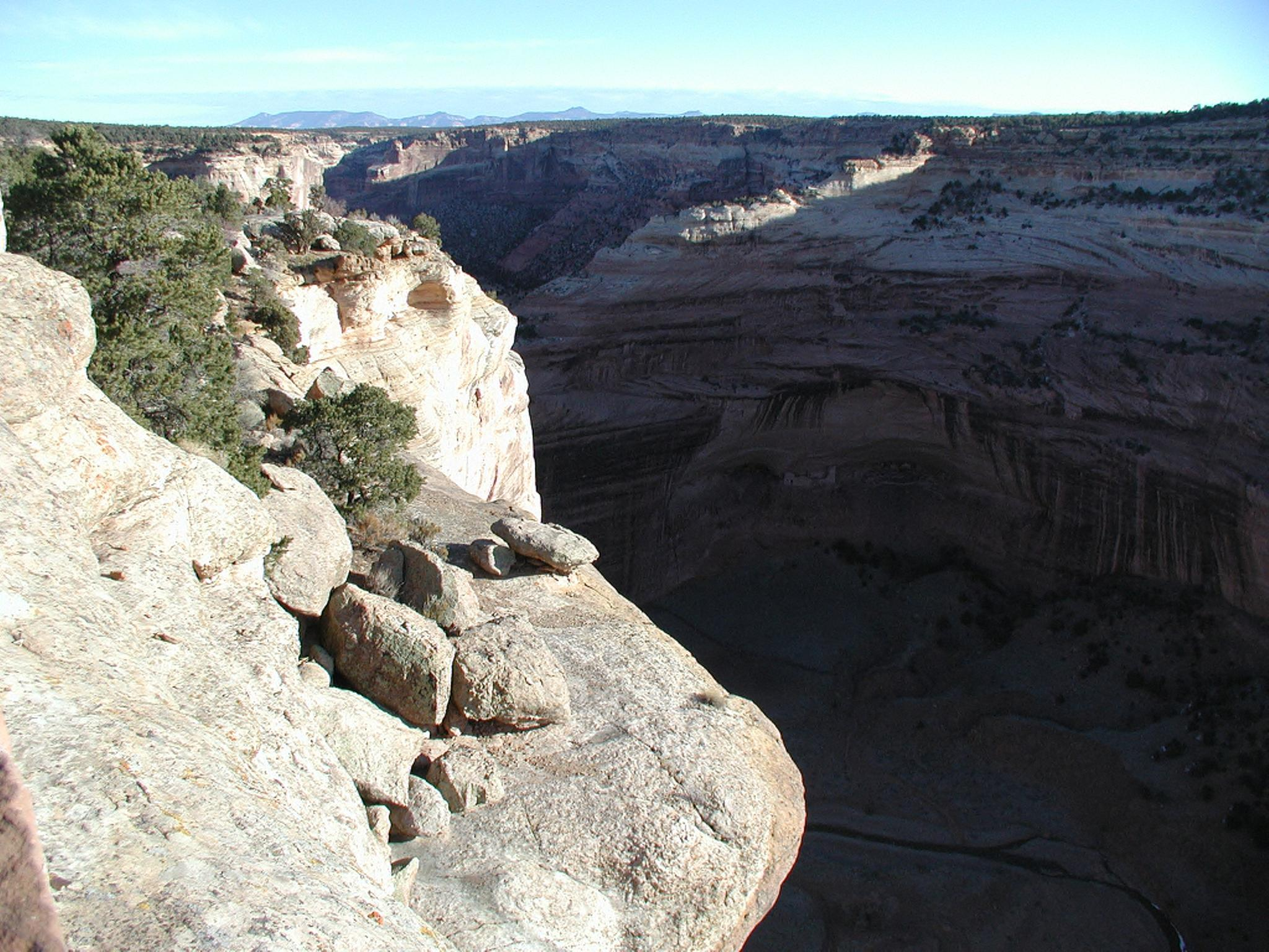 Canyon de Chelly National Monument, Arizona, USA. Mummy Cave